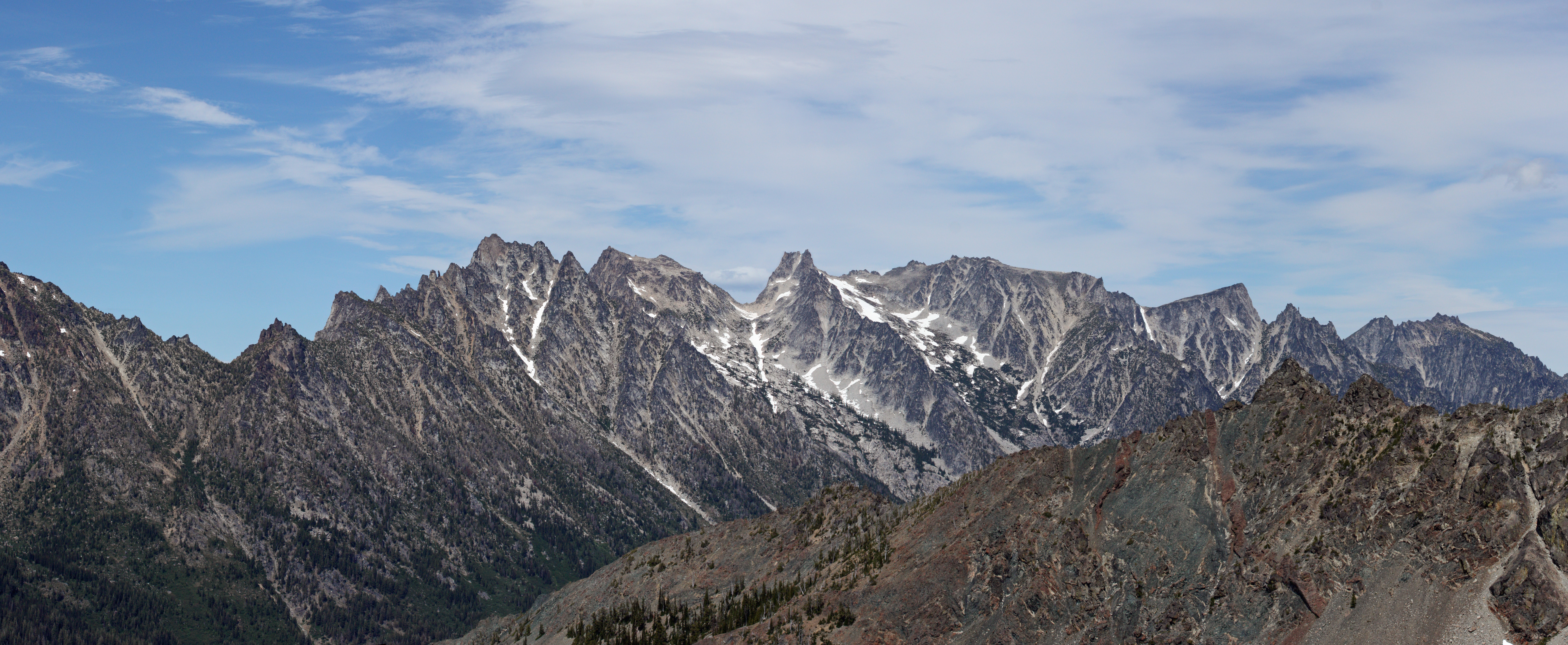 Argonaut Peak (8453 feet, 2576 m, left center); Colchuck Peak (8705 feet, 2653 m, center); Dragontail Peak (8840+ feet, 2694+ m, right center)